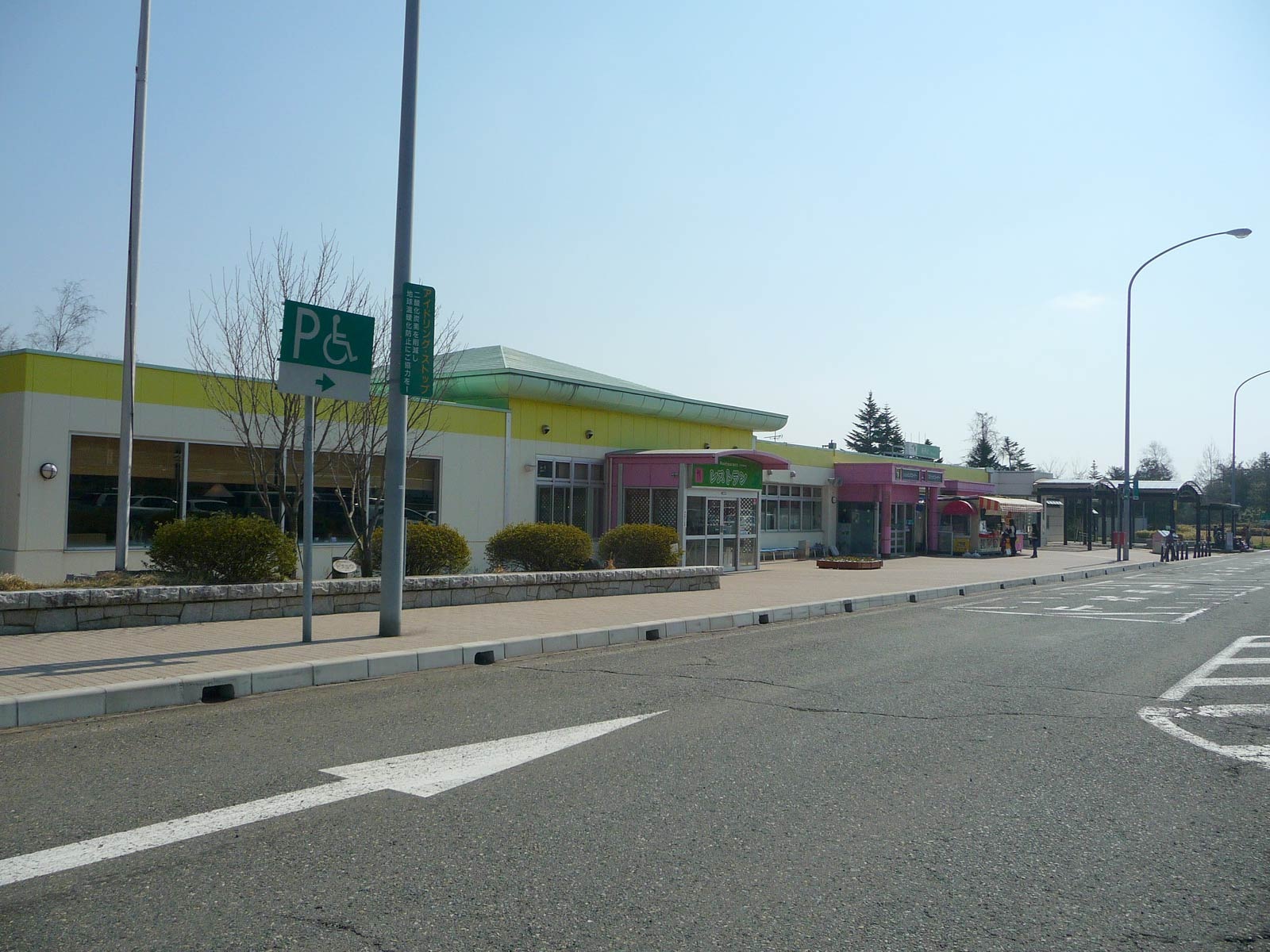 Tohoku Expressway Tohoku Iwatesan SA